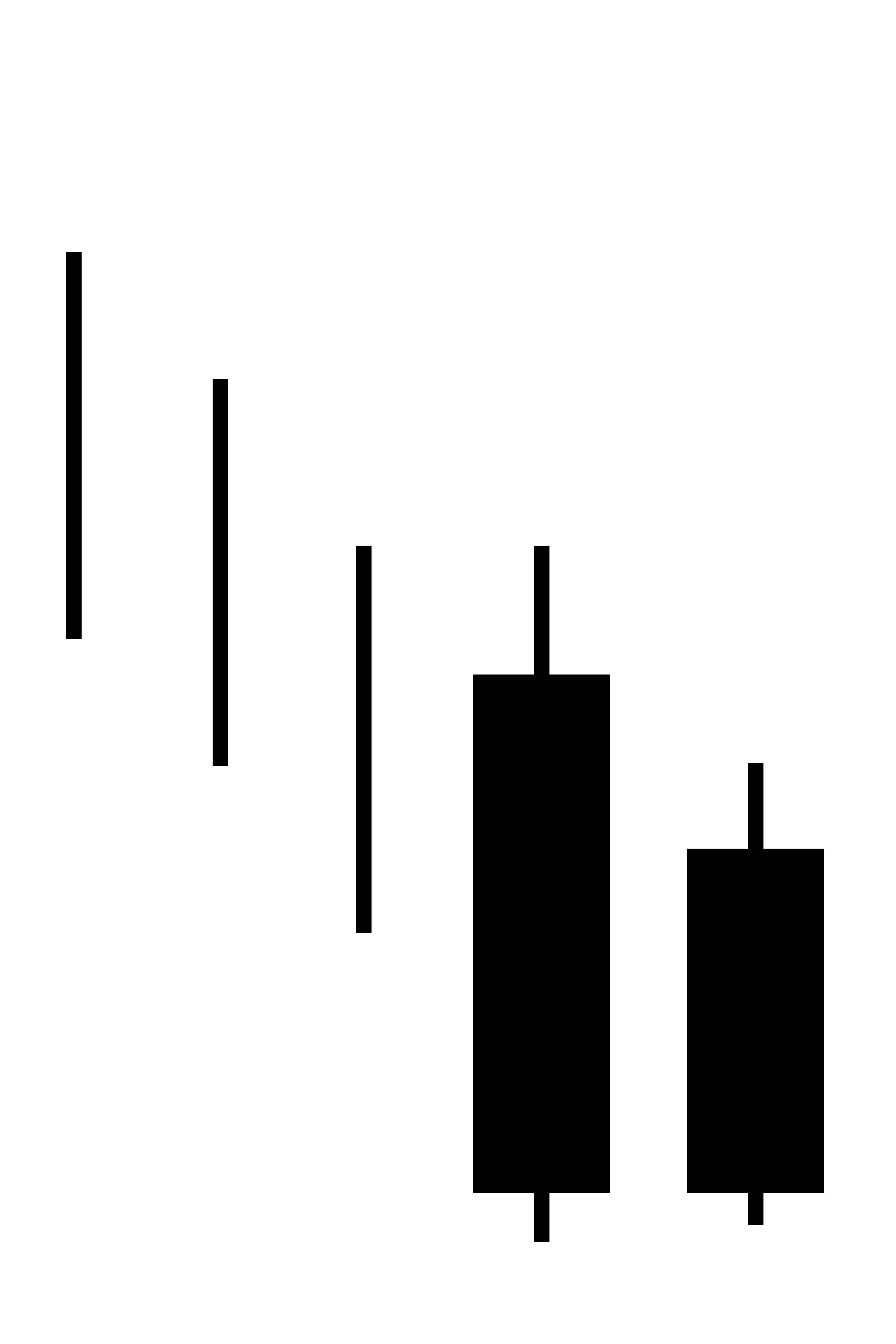 Bullish matching low